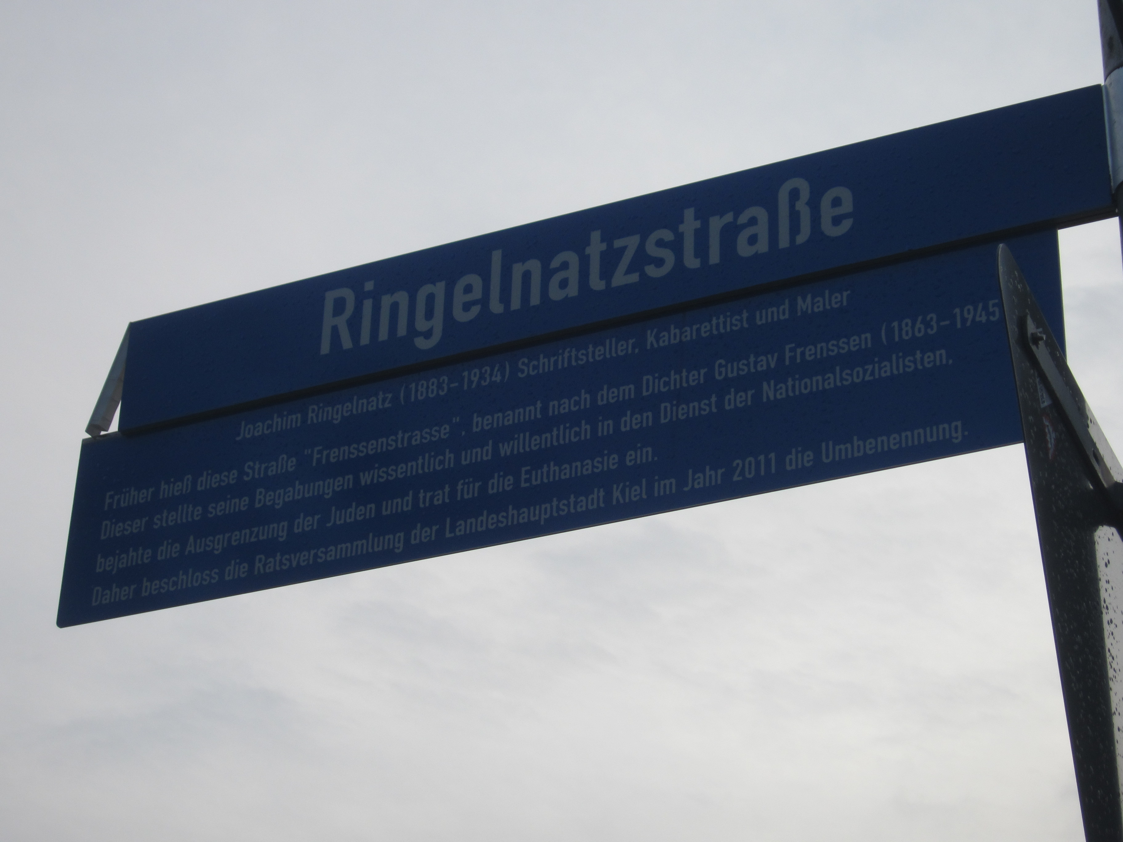 Street sign "Ringelnatzstraße" in Kiel-Pries